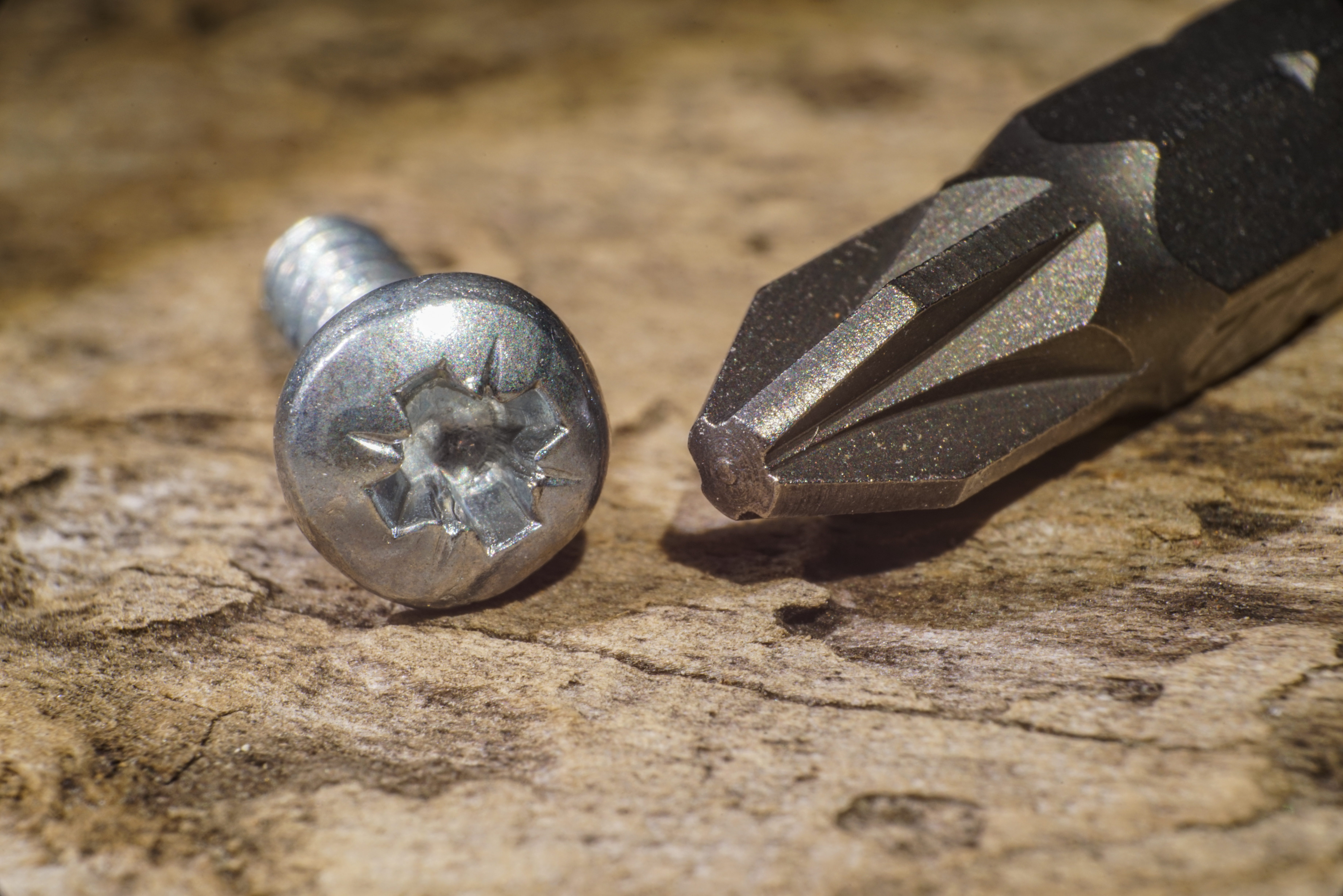 Pozidriv screwdriver and screw